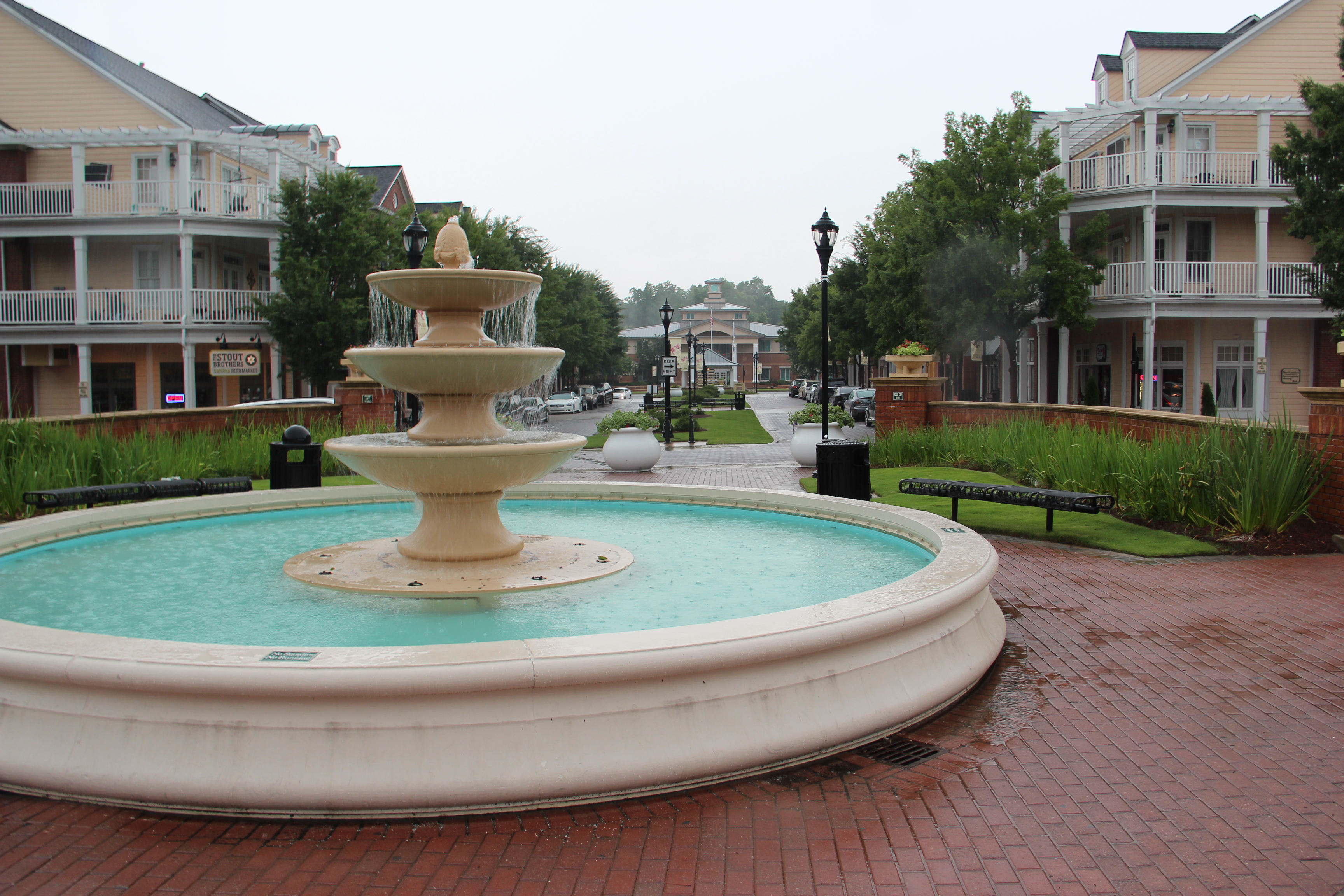 Smyrna, Georgia Market Village